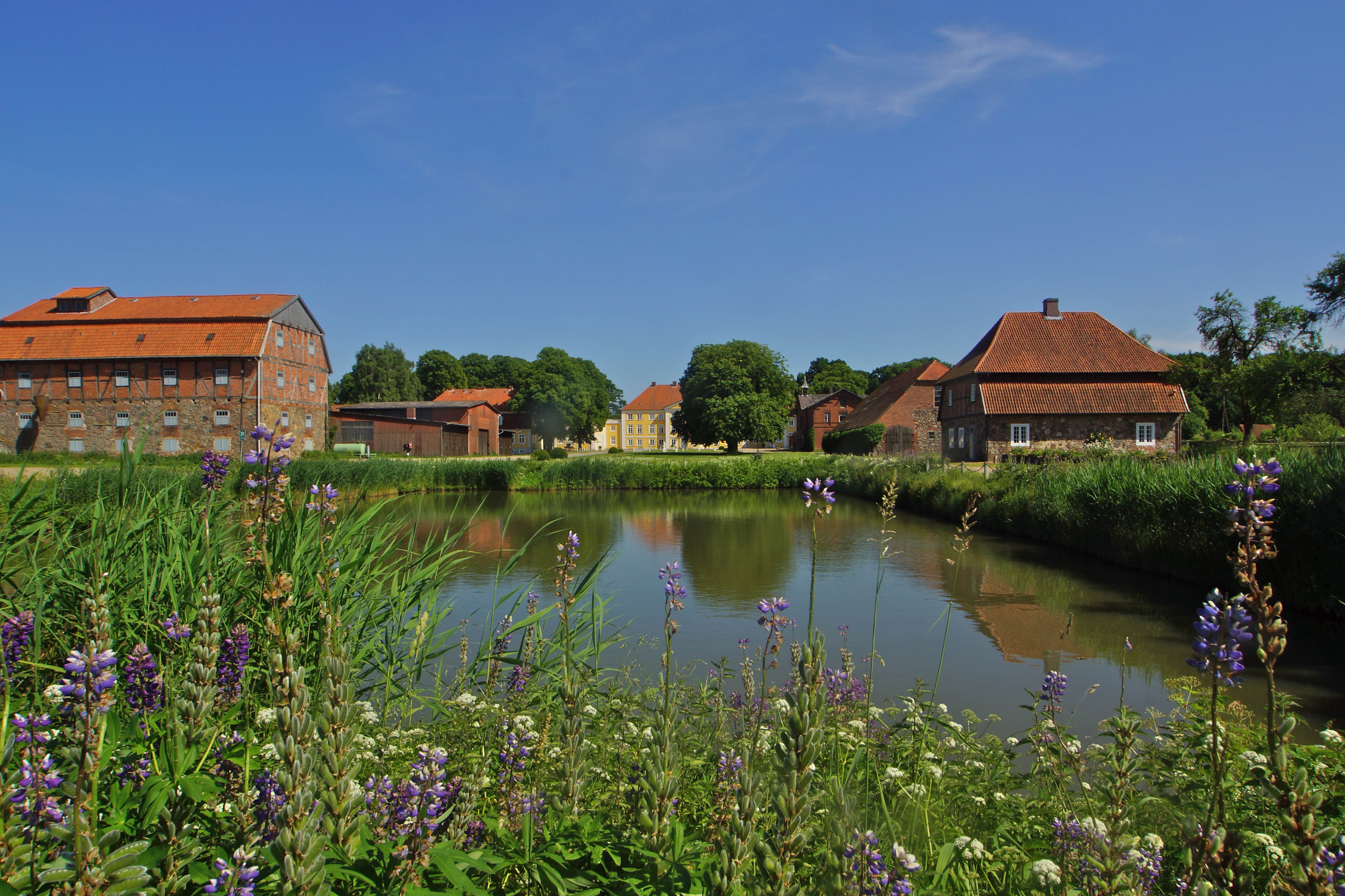 Roseburg (Wotersen), en:: Wotersen Hall, panorama